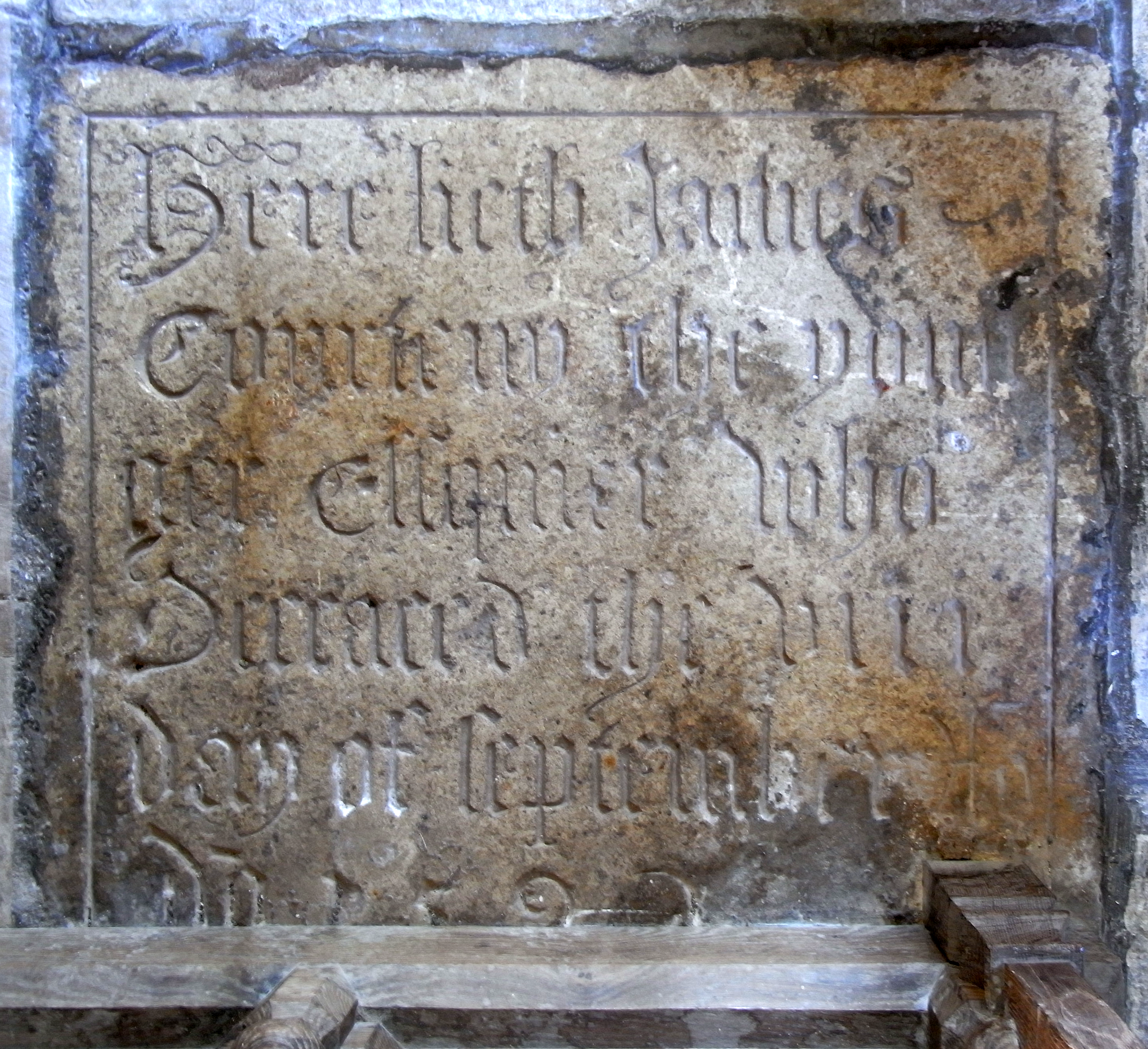 The ledger stone (across the middle of which now stands the 1926 wooden chancel screen) of James Courtenay (d.1592) "The Younger", of Upcott Barton, in the Upcott Chapel, St Matthew's Church, Cheriton Fitzpaine, Devon, the most ancient stone in the church (Burchmore, Geoff, (Ed.), St Matthew's Cheriton Fitzpaine: Guide and Information, 2014, p.2 (church booklet)) inscribed in Gothic script as follows: "Here lieth James Courteny The Younger Estquier who deceased the viii day of September A(nn)o D(o)m. 1592".